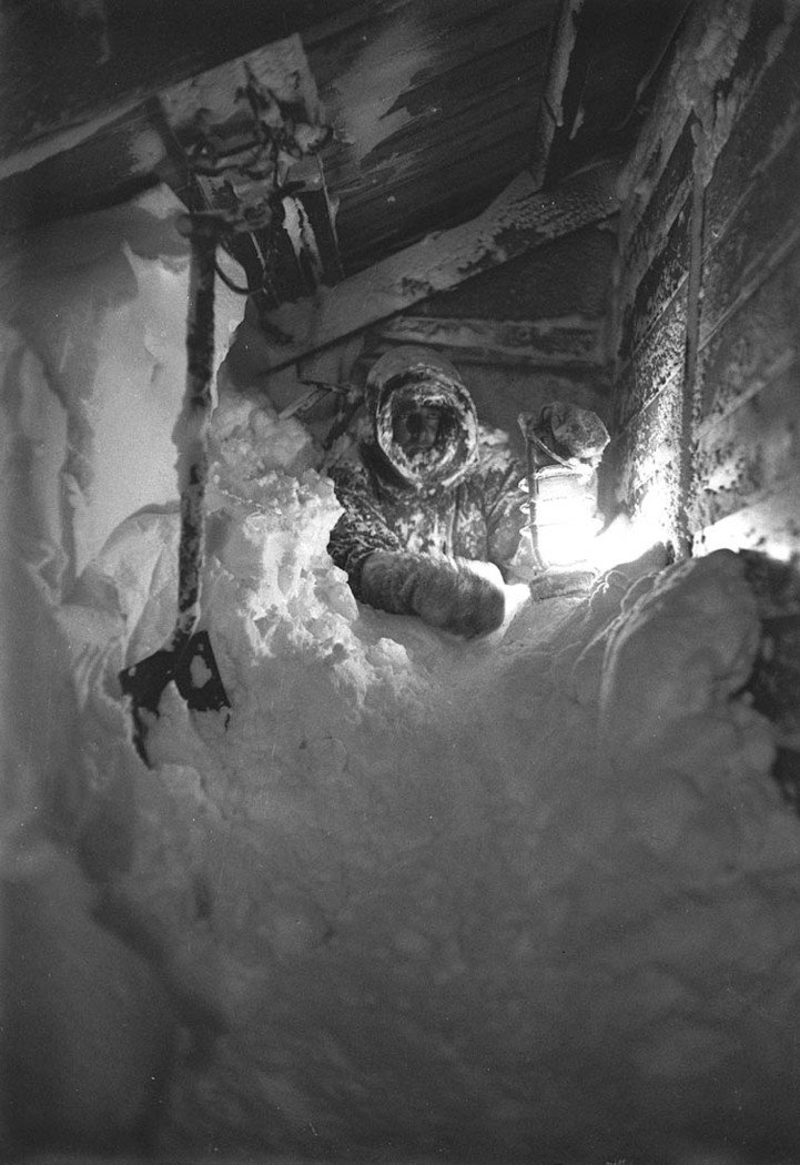 Photograph of Alfred Hodgeman during the Australasian Antarctic Expedition, 1911-1914, taken by Frank Hurley.